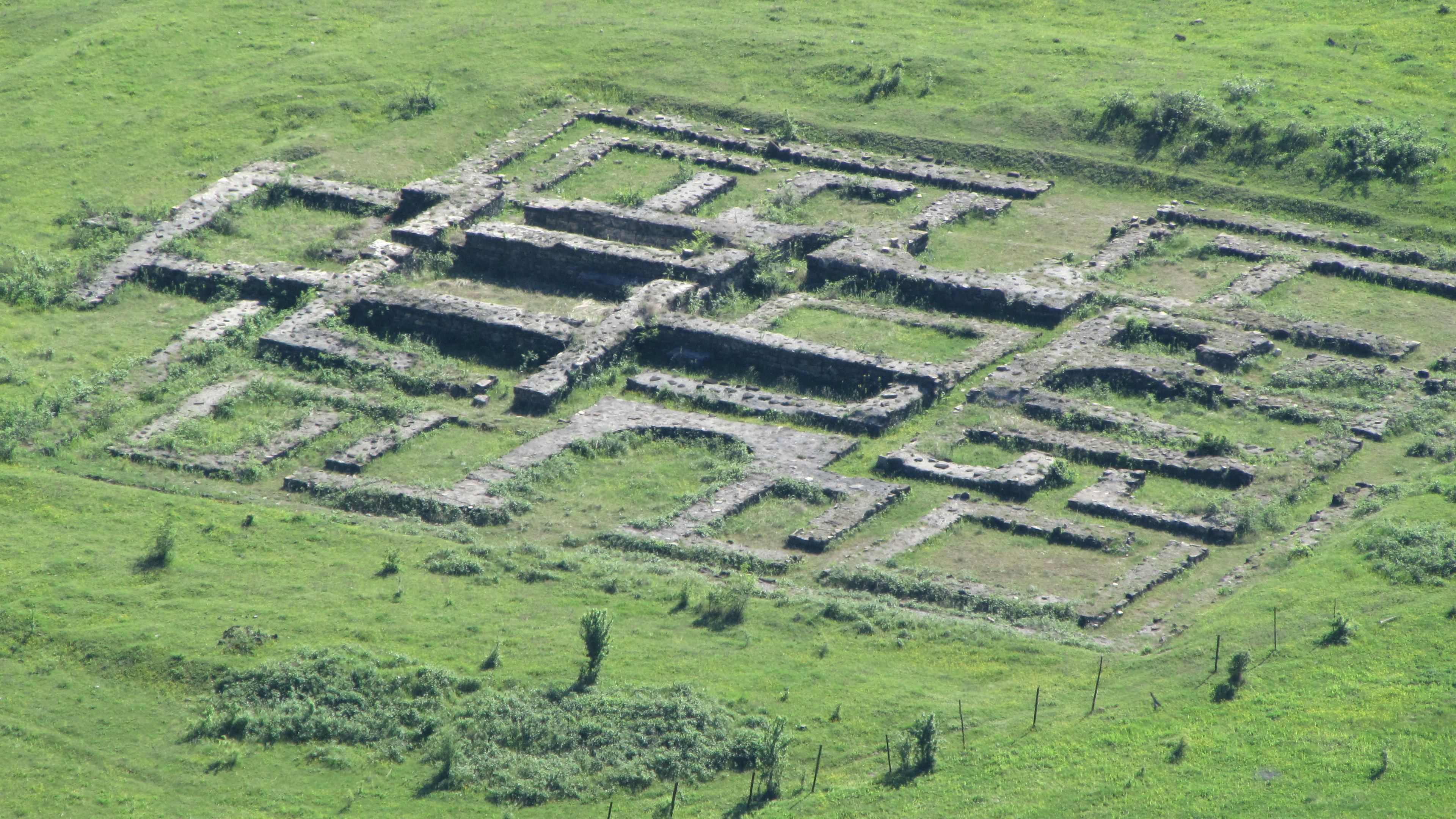 Nekresi (Archaeological site) viewed from Nekresi